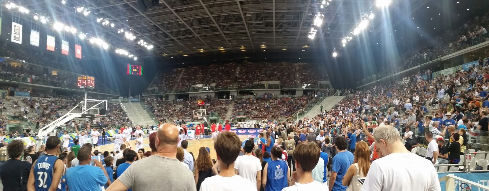 Pala Alpitour during a match of the 2016 FIBA World Olympic Qualifying Tournaments for Men in Turin, Italy.